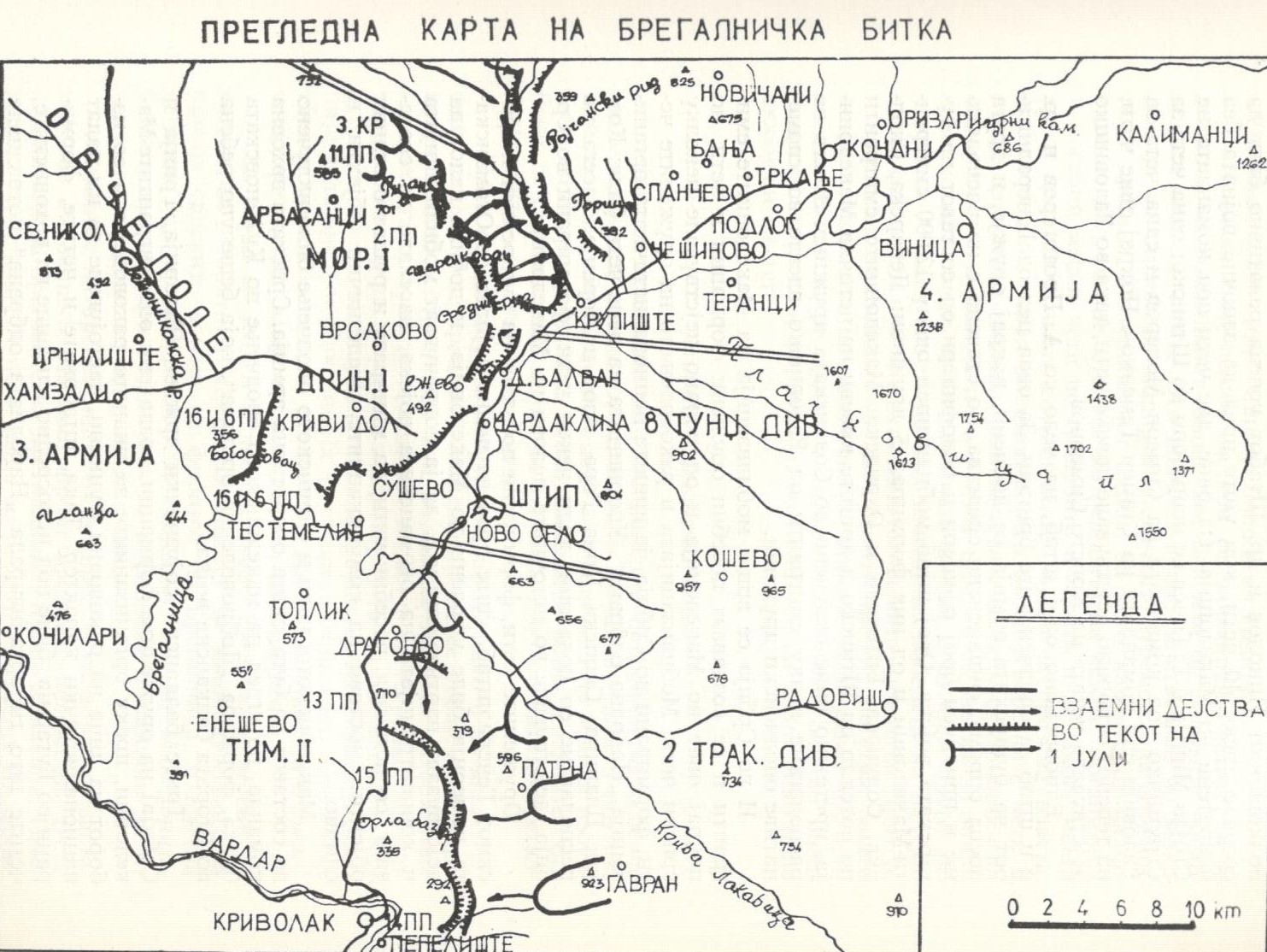 Map of the Battle on Bregalnica, Macedonia in First World War